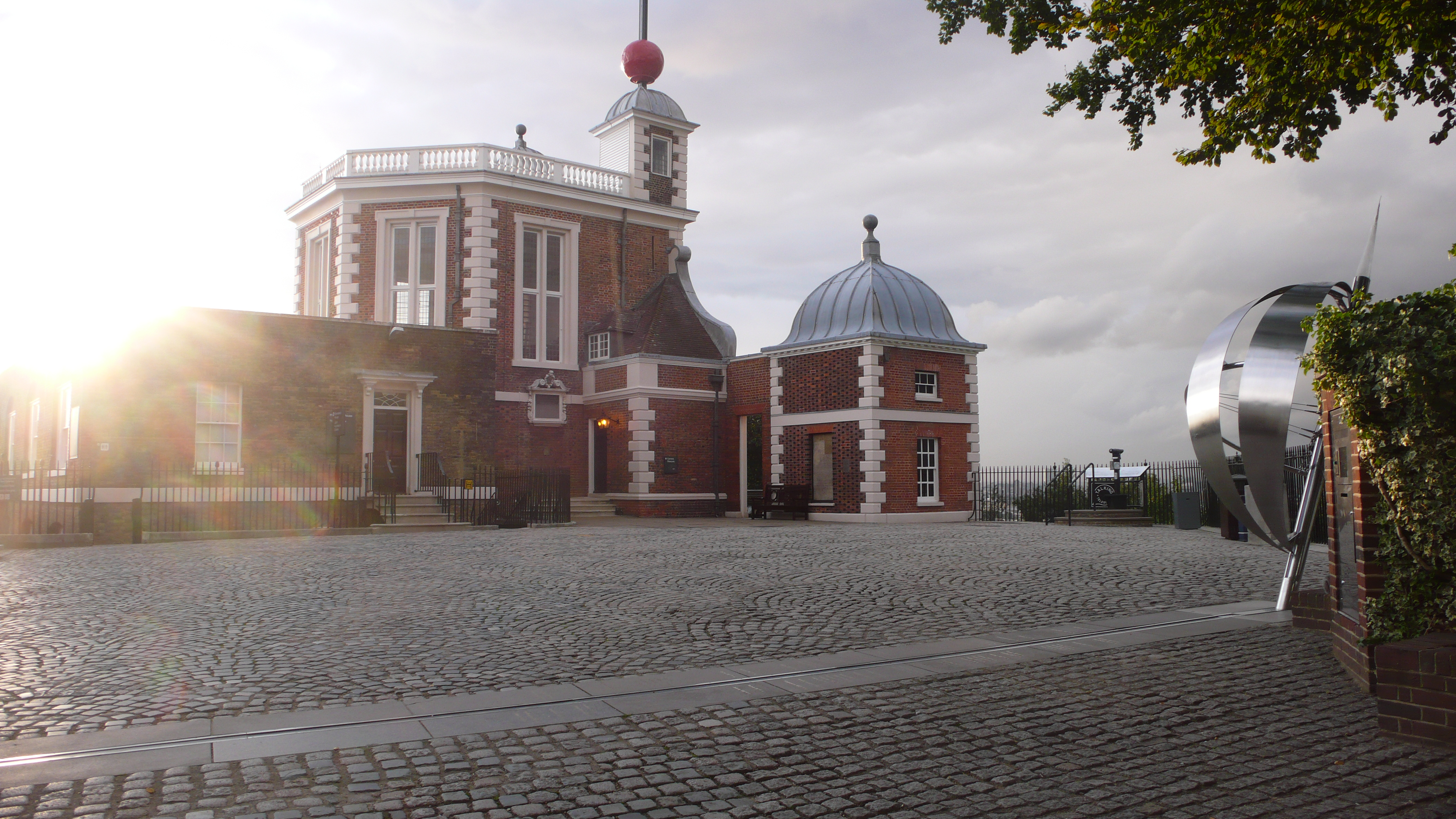 Greenwich Česky: Greenwich